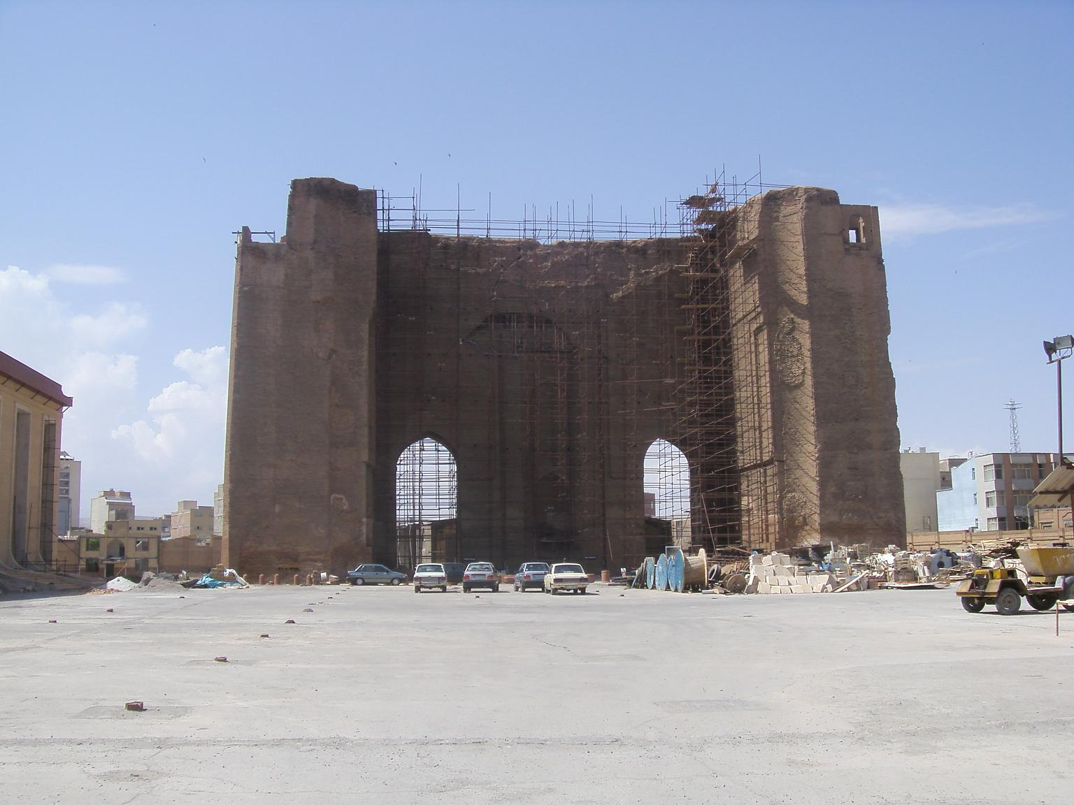 Arg-e Tabriz, Iran